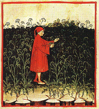 Fennel (Feniculus) Nature: Warm and dry in the second degree. Optimum: The domestic variety. Usefulness: Good for the eyesight and for prolonged fevers. Dangers: It is bad for the menstruel flow. Neutralization of the Dangers: With carob. From the Theatrum of Casanatense